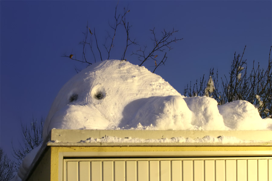 Photograph of a Kilroy was here-style snowman